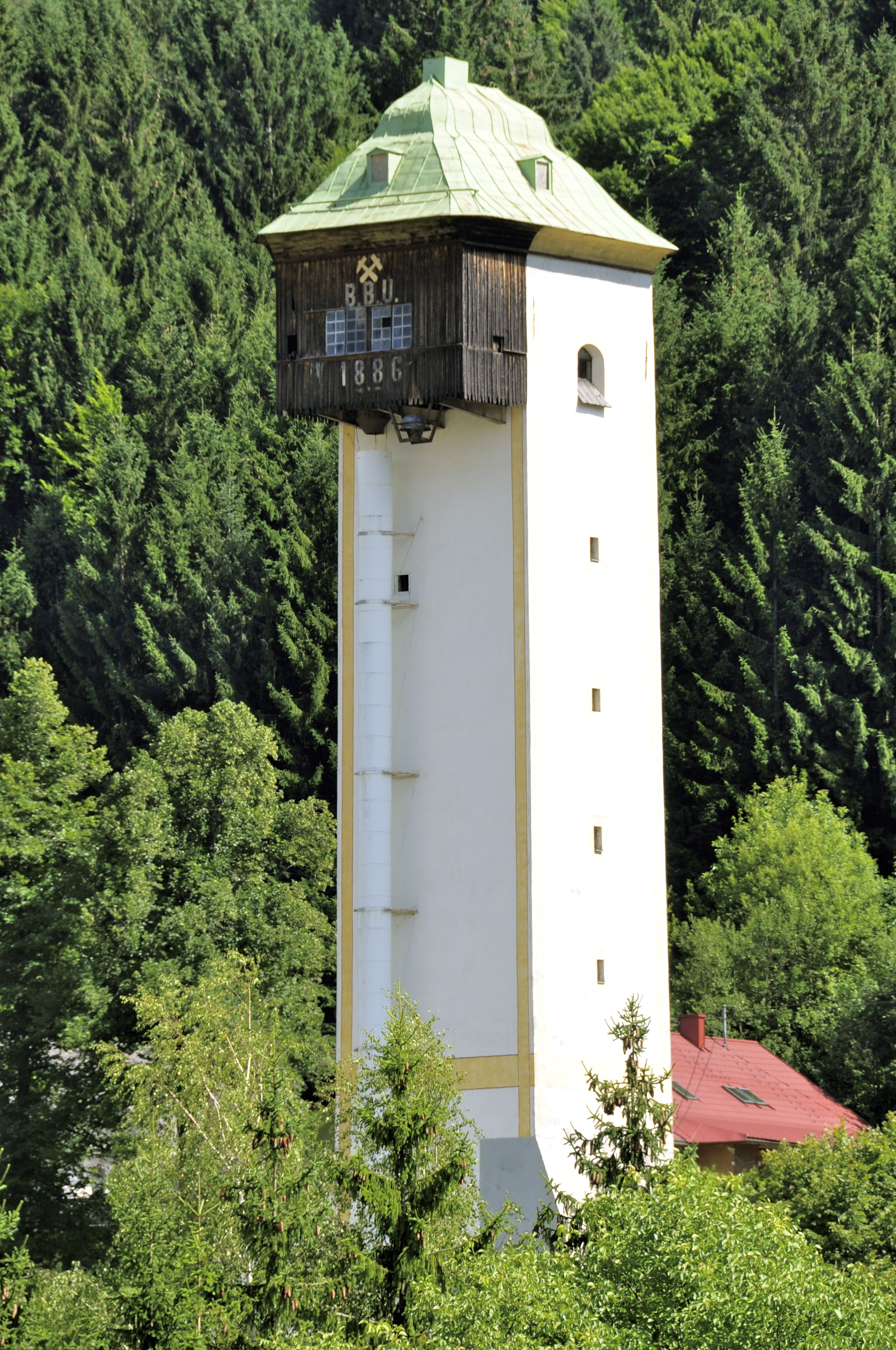 Shot-tower on the Schrotturmstrasse #1 in Arnoldstein, municipality Arnoldstein, district Villach Land, Carinthia / Austria / EU